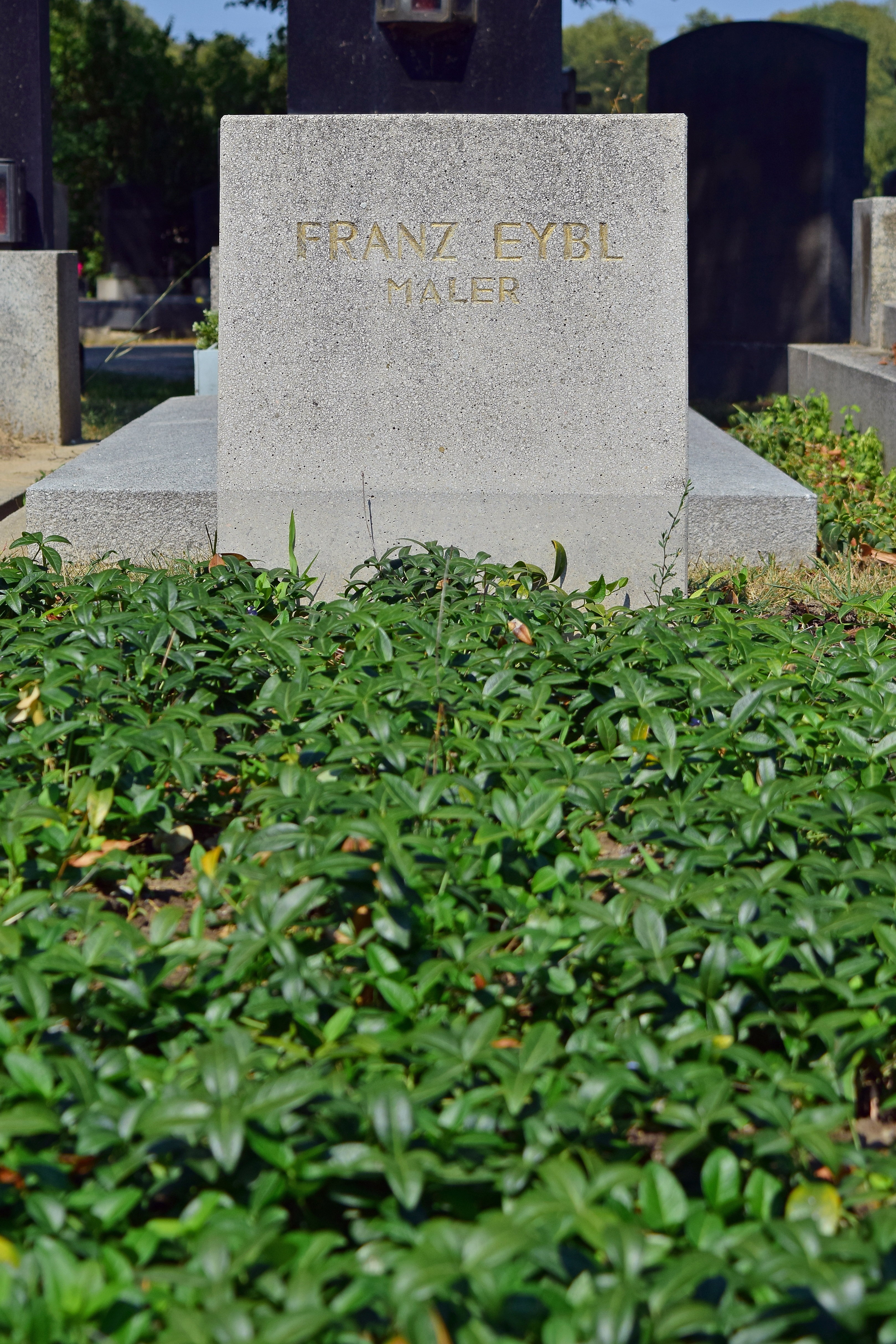 Grave of honor of the Austrian painter Franz Eybl at the Wiener Zentralfriedhof